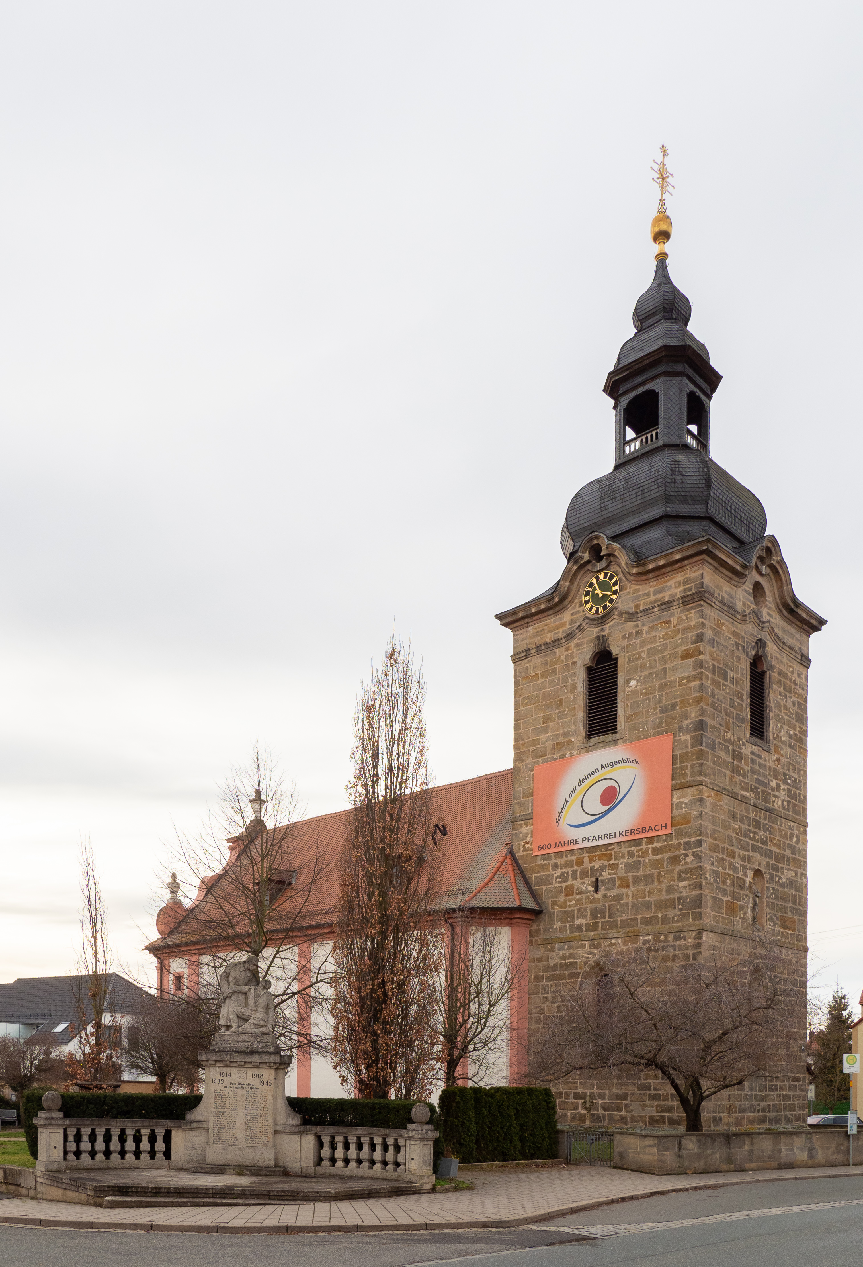 Catholic parish church of St. Johannes Baptist and St. Ottilie in Kersbach near Forchheim